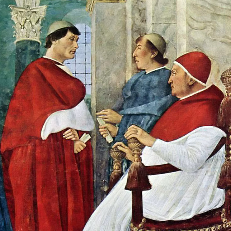 Detail of fresco with Cardinal Giovanni Della Rovere and Pope Sixtus IV